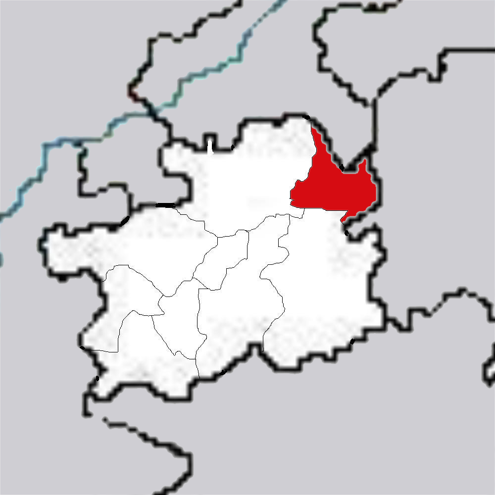 Maps of Guizhou Province of China